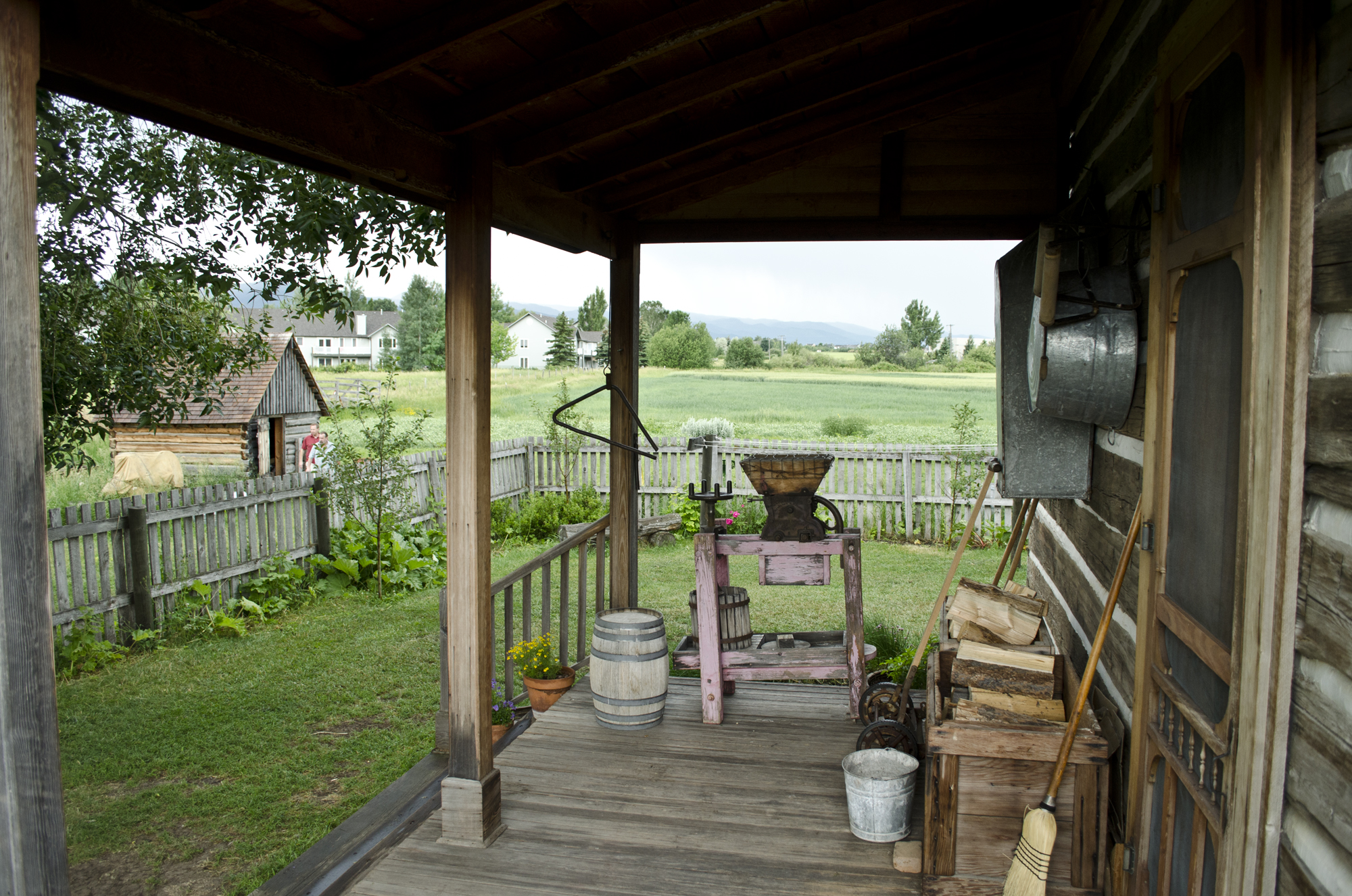 Looking southeast across the back porch of the house on the grounds of the Tinsley Living Farm at the Museum of the Rockies in Bozeman, Montana. The house was constructed in 1889 by William and Lucy (Nave) Tinsley. William Tinsley worked for Wells Fargo and migrated to Montana in 1864. Lucy was a dressmaker who emigrated to Virginia City, Montana, the same year. Both were originally from Missouri. They met in Virginia City, married in 1867, and relocated to Willow Creek in the Gallatin Valley (about 40 miles west of Bozeman). They built a homestead log cabin (about the size of the current blacksmith shop), and lived there until 1889. Their first child was born in 1868, and by 1889 they had eight kids. William Tinsley built the family a two-story home out of logs taken from the nearby Tobacco Root Mountains. The oldest children helped haul the logs, which took two days to get to the homestead. The structure took two years to construct. Most of the items in the house were ordered from the Sears catalog. The family occupied the house until the 1920s. The house was purchased by the museum in 1987, and moved from its original location to the Museum of the Rockies in 1989. Refurbished with items donated by Tinsley descendants, it now serves as a living history museum. The house sits on 10 acres of land, and includes a historically accurate kitchen garden, flower garden, chicken coop, farm implements, carriage house, blacksmith shop, root cellar, outhouse, functioning well and pump, storage shed, and fields. A full cellar was excavated beneath Tinsley House as well. Visitors are free to touch and use many of the items in Tinsley House. A staff of historical re-enactors includes four women who cook, clean, sew, and perform chores around the house as well as a blacksmith who does ironmongery and repairs.